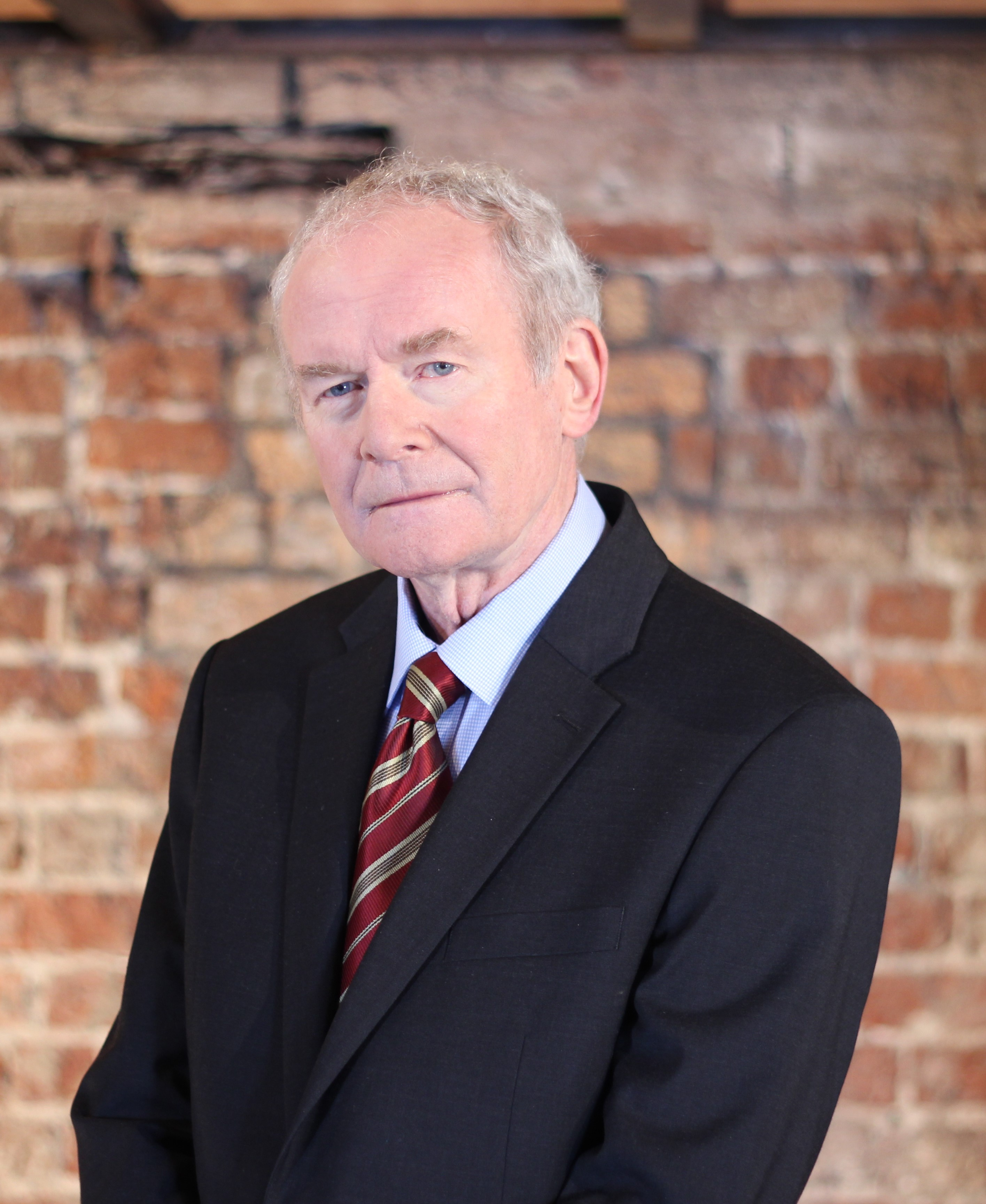 Cropped image of Martin McGuinness, an Irish politician.